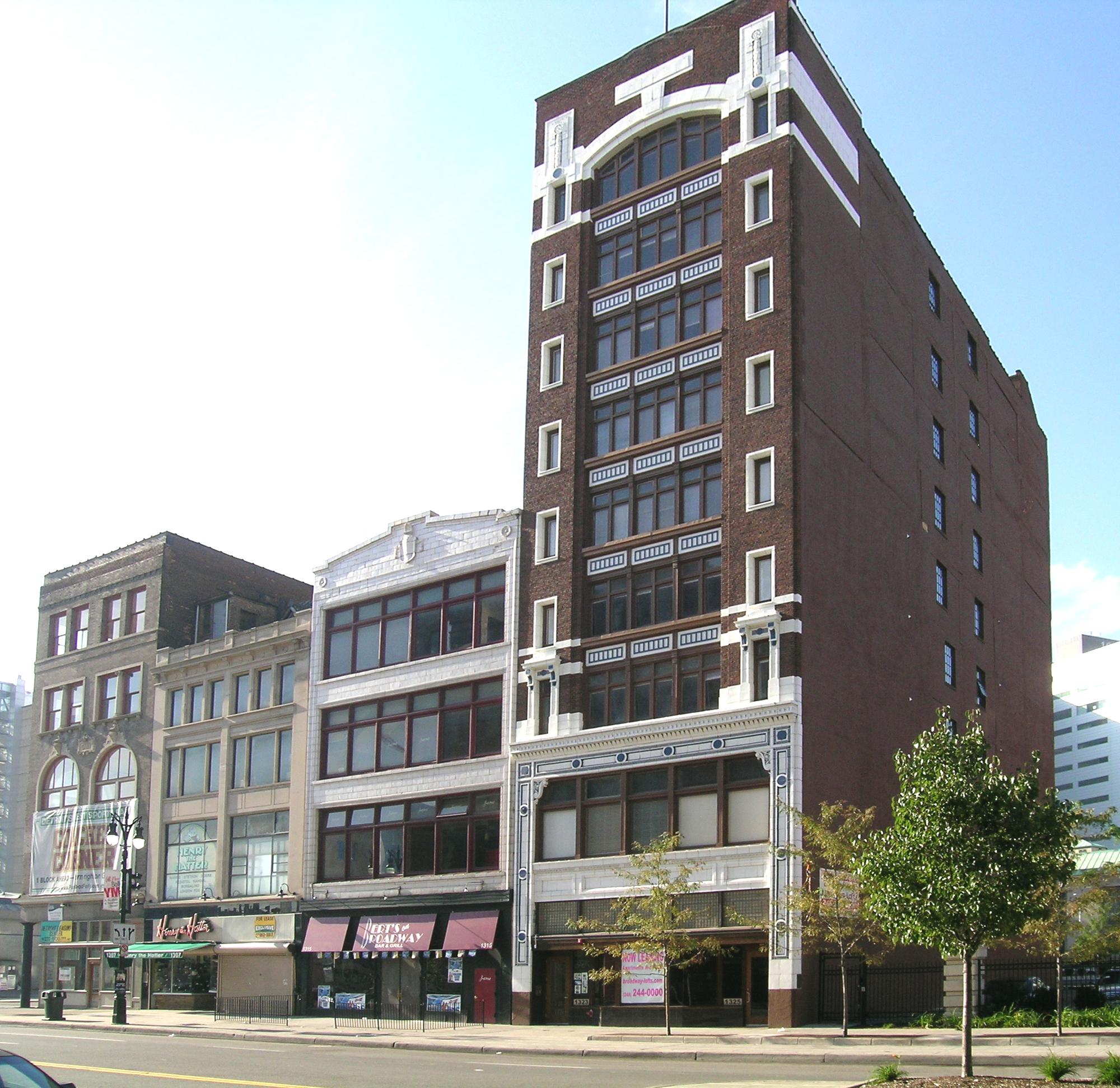 West side of Broadway — Detroit, Michigan. Historic district contributing properties in the Broadway Avenue Historic District.